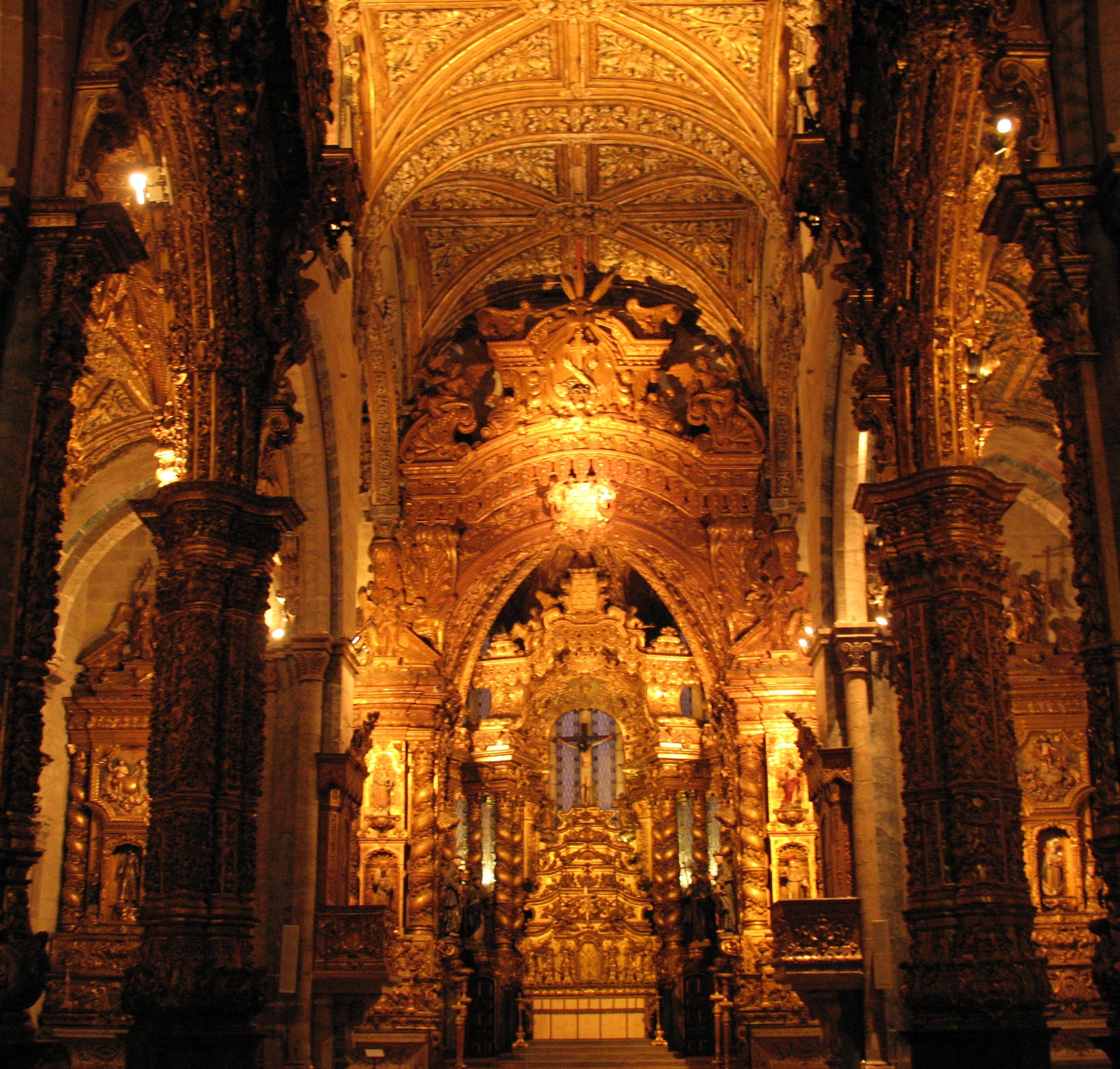 Igreja de São Francisco / Church of Saint Francis in Porto, Portugal